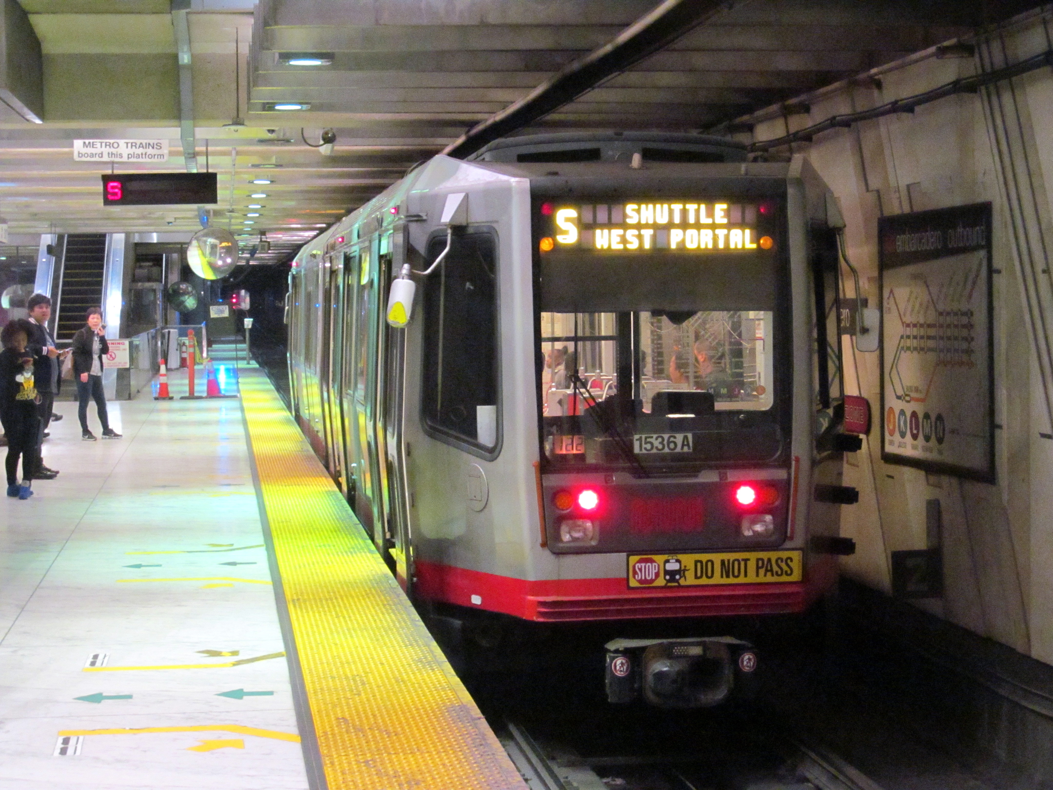 An outbound S Shuttle train at Embarcadero station in October 2017. This was several hours after rush hour and several weeks after baseball season; the trip was likely an equipment move rather than typical rush hour or post-ballgame supplemental service.